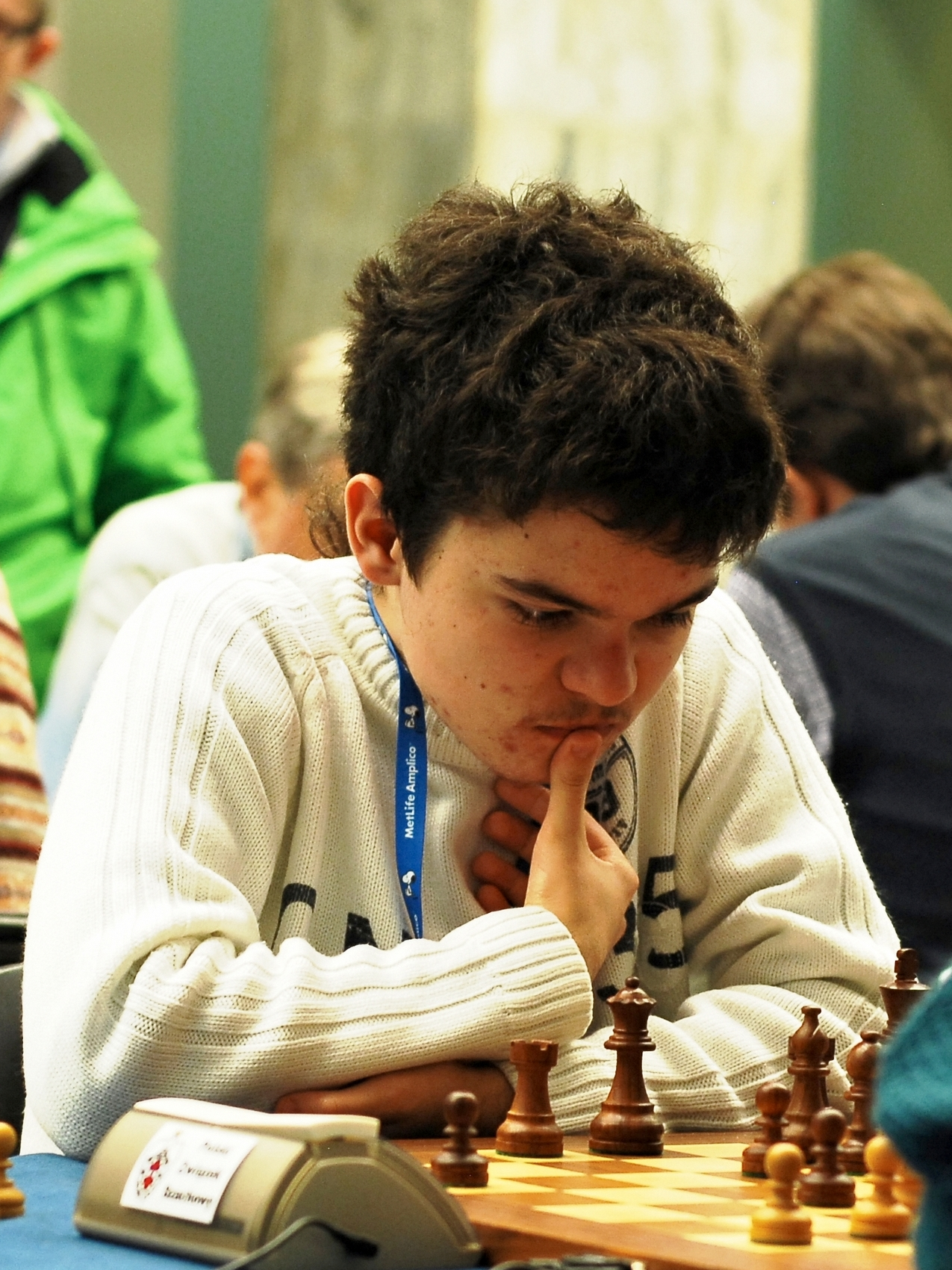 GM Illya Nyzhnyk, European Rapid Chess Championship, Warsaw 2012.